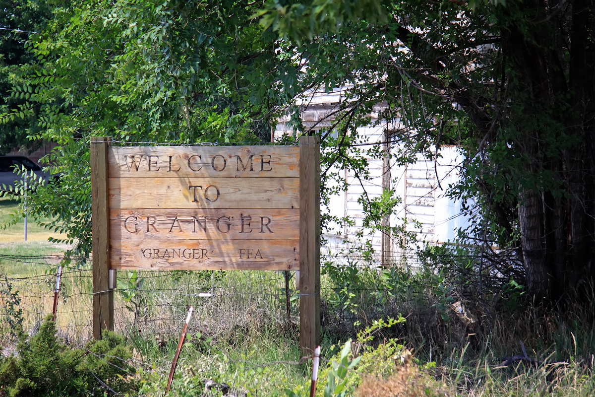 This is the Welcome sign in Granger, Washington.